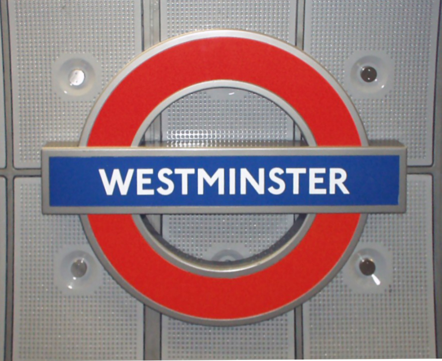 London Underground, sign at Westminster tube station